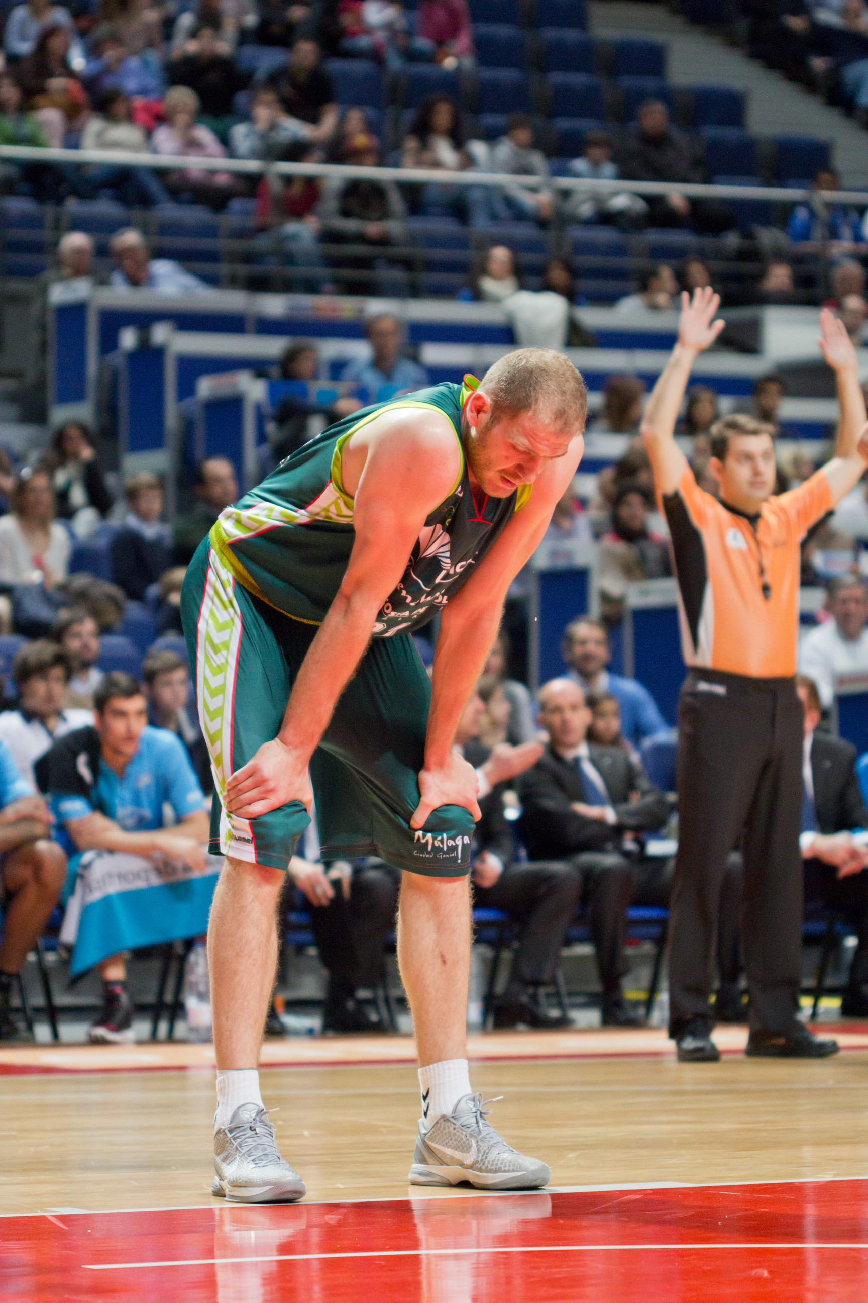 Luka Žorić. Game Estudiantes vs Unicaja Málaga.